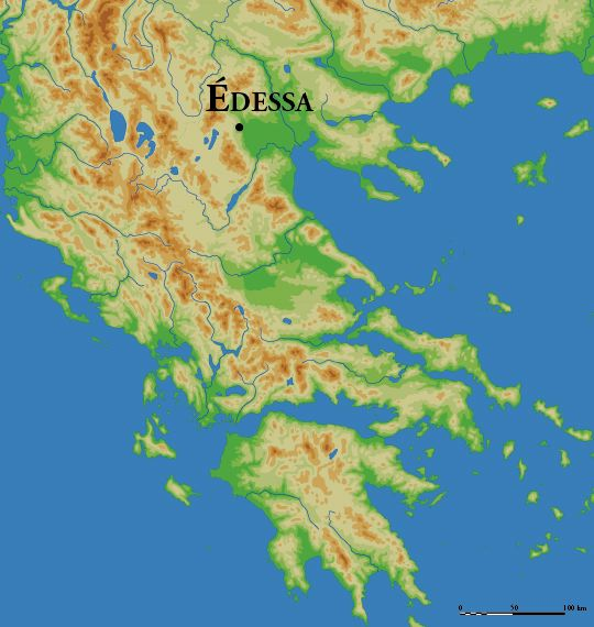 Edessa location in Greece. Drawing by Marsyas.